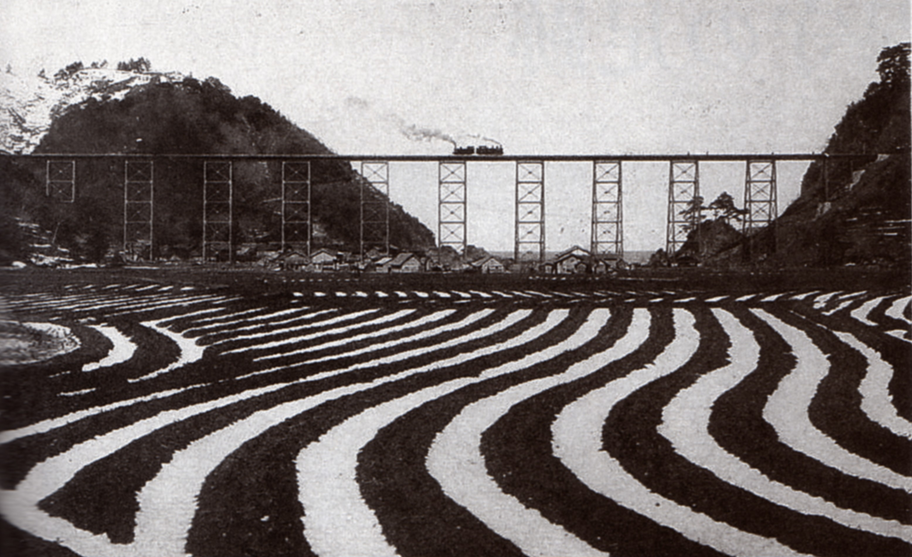 The first trial train through Amarube viaduct.The locomotives are JGR No. 1484 of type 1480 (left) and JGR No.2112 of type 2100 (right).